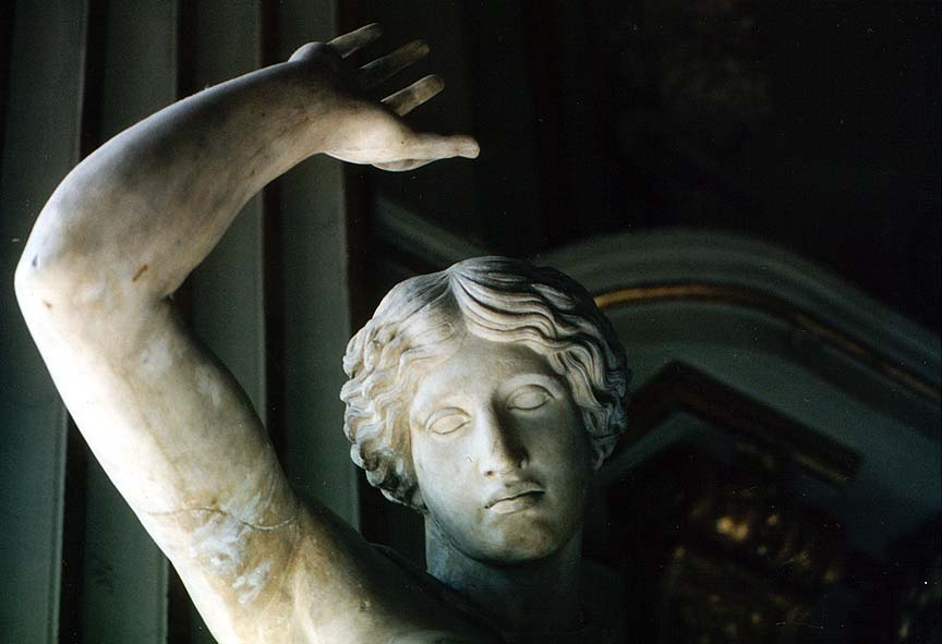 Wounded Amazon of the Capitol-Sosikles type. Marble, Roman copy signed by Sosikles after a Greek original of the 5th century BC.